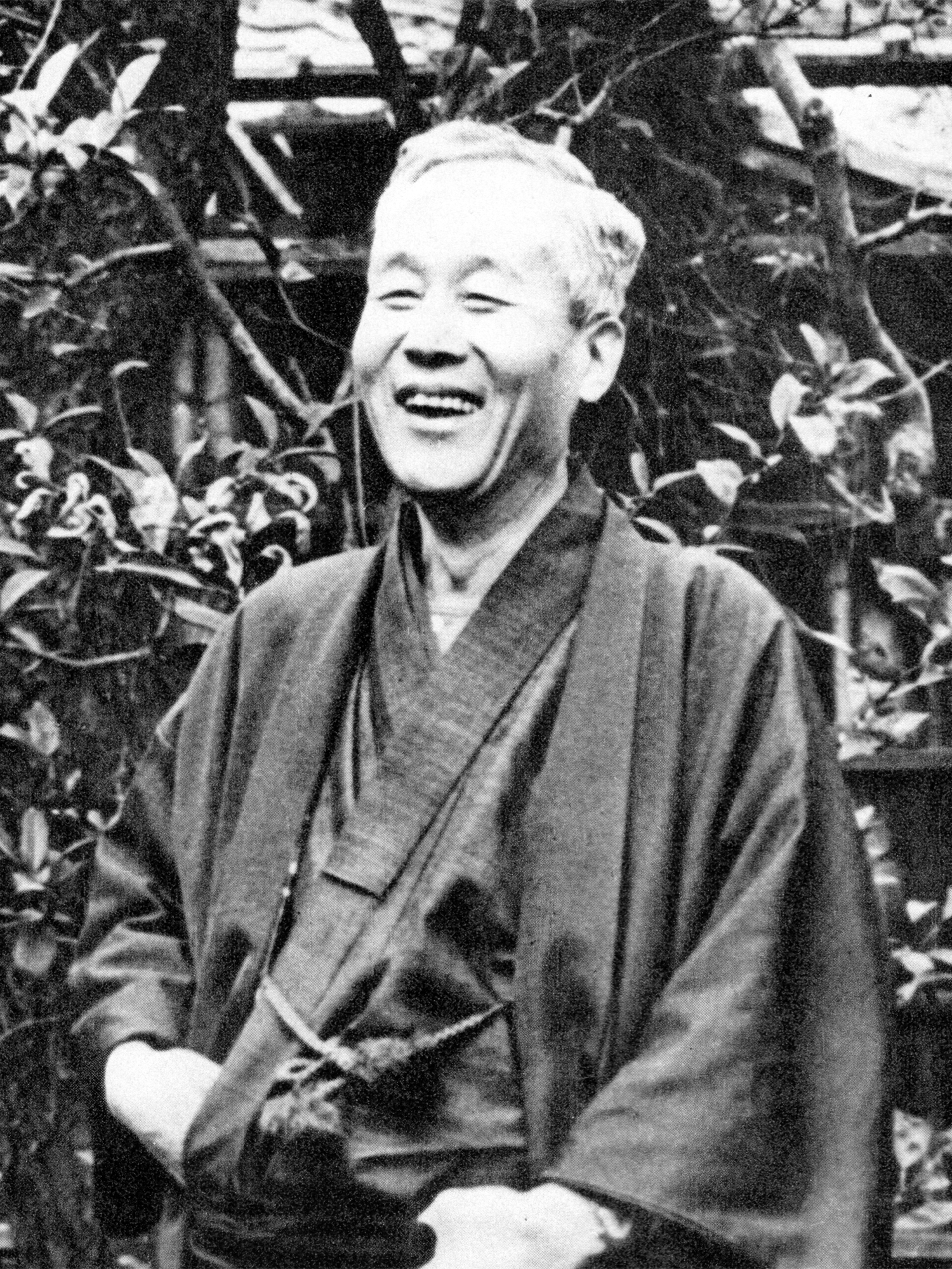 Hiroshi Suekawa